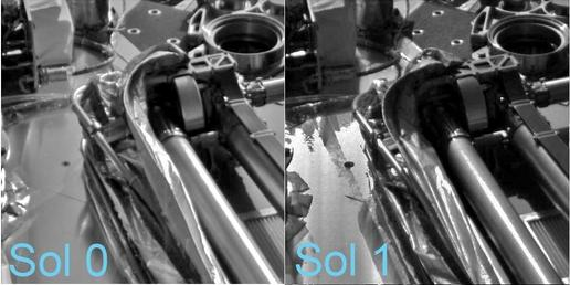 Phoenix's Robotic Arm Stowed before deployment